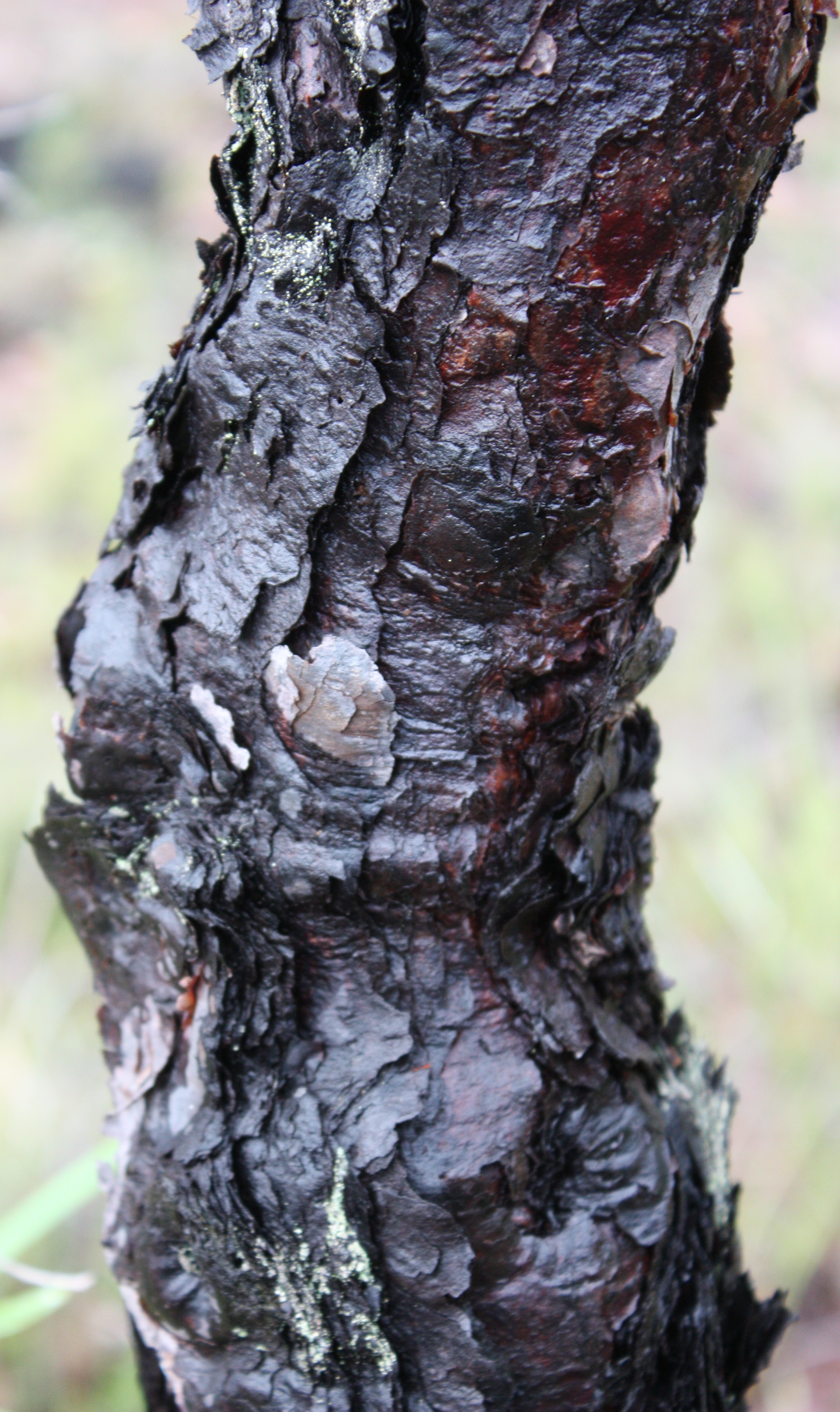 Trunk of Persoonia longifolia (Upright Snottygobble), showing the flaky bark. Taken near Barrabup Pool on the Blackwood River near Nannup, Western Australia.